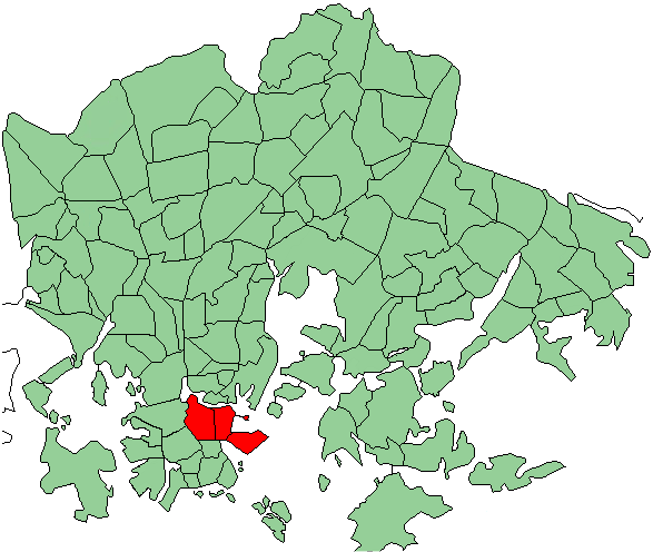 Districts of Helsinki, Vironniemi district highlighted, the center of Helsinki since 1640 (in Finnish: Vironniemen peruspiiri)